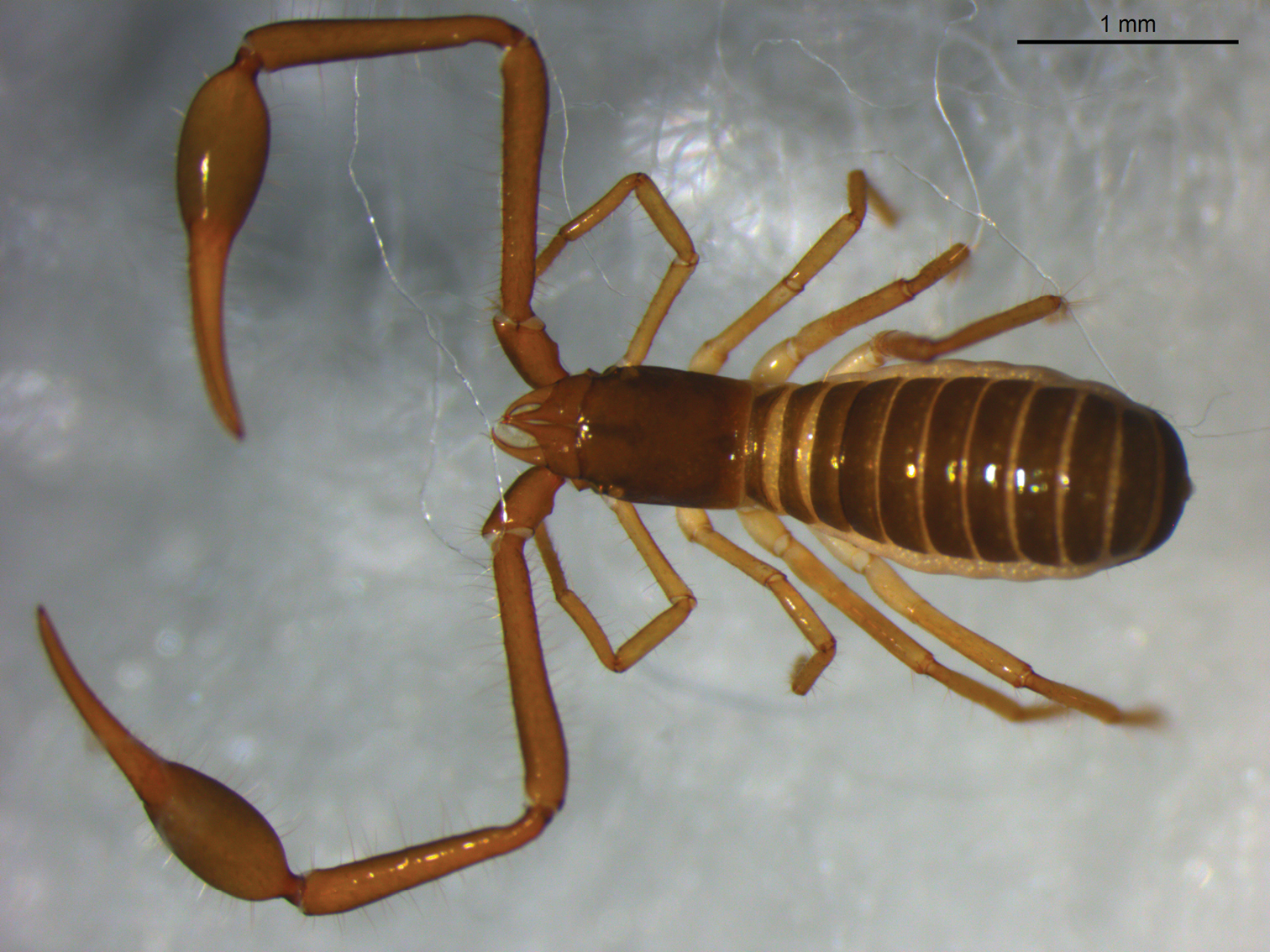 Stenohya pengae, dorsal view of male holotype.